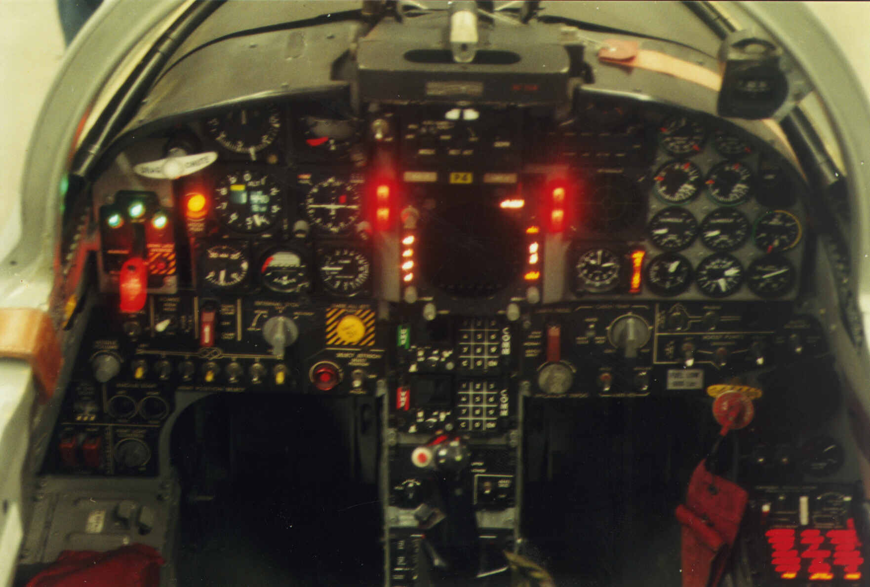 Description: Cockpit of a swiss F-5E, at the Lampcheck Sorce: Photo by Benutzer:Kobel, first uploadet to the german Wikipedia